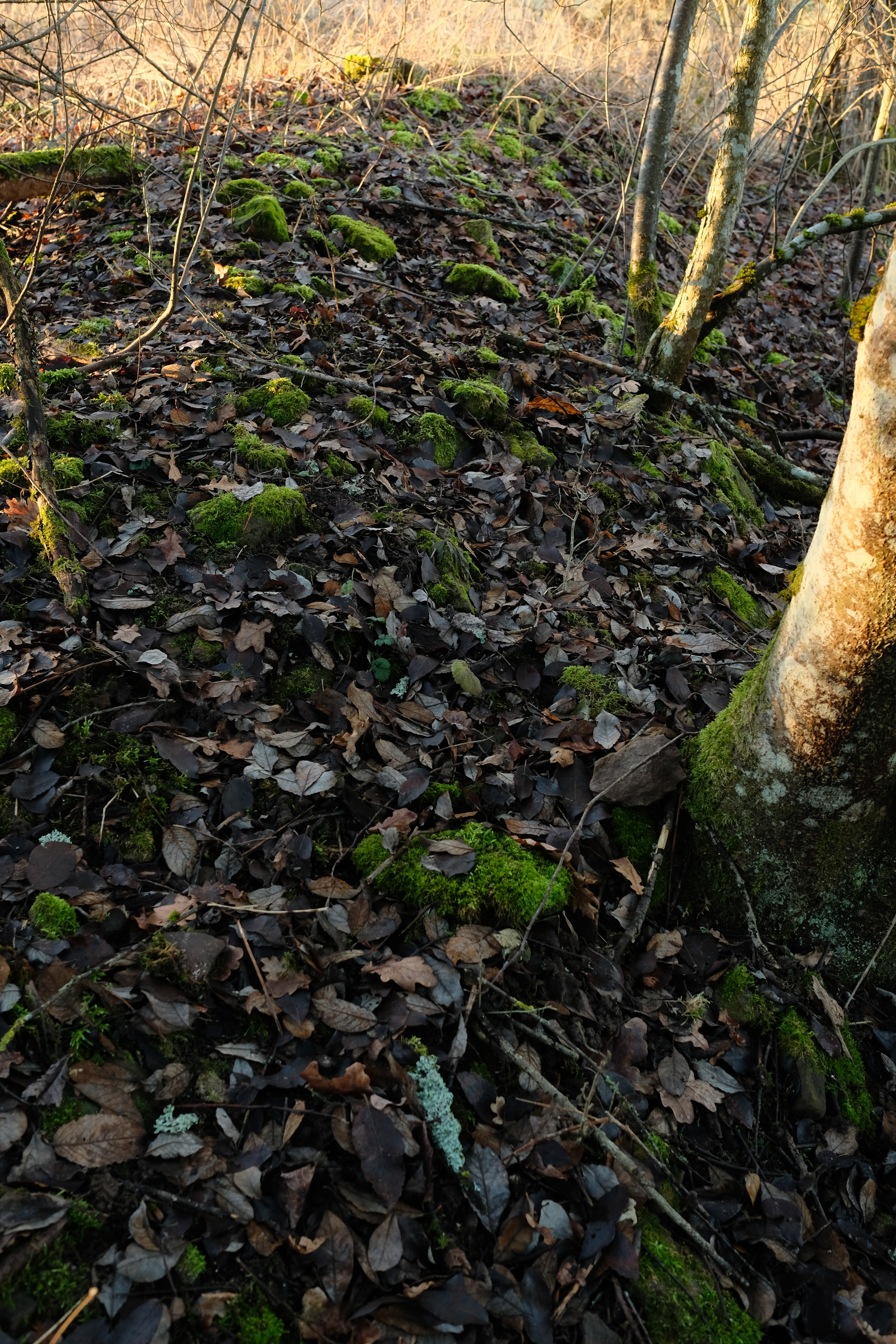 Demolished castle Runstal Villingen, Villingen-Schwenningen, Schwarzwald-Baar-Kreis, Baden-Württemberg, Germany